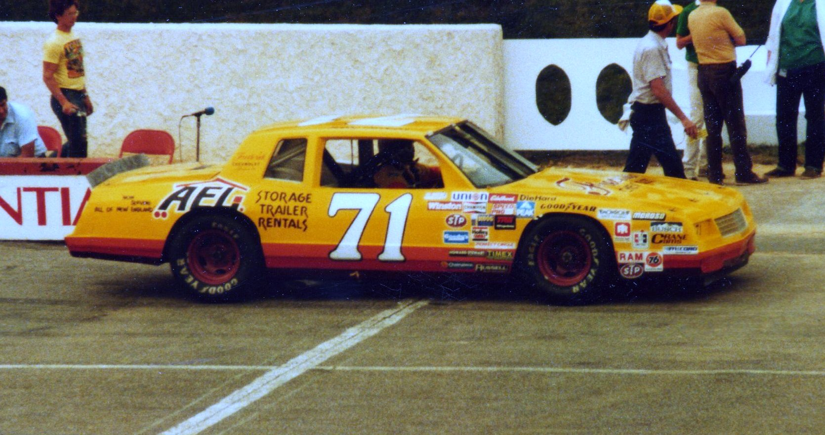 NASCAR Winston Cup Series driver Bobby Gerhart in 1984 at Pocono.